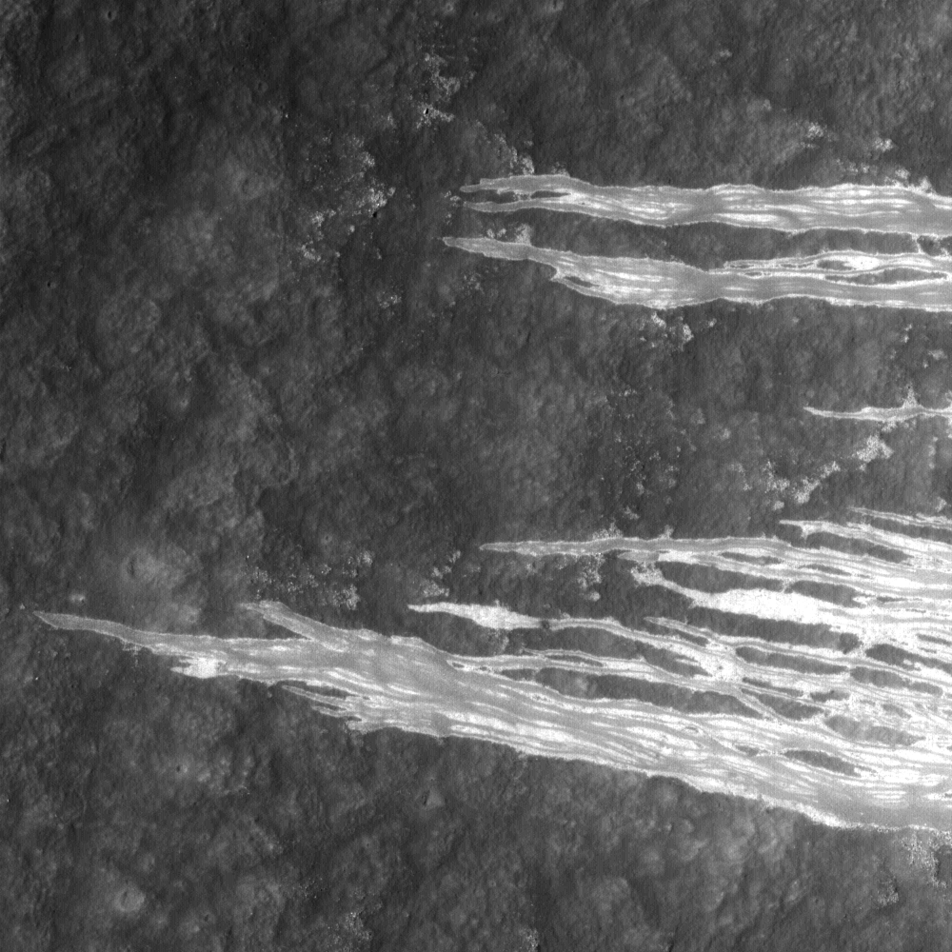 Beautiful granular flows on the wall of Hipparchus G crater brought fresh debris from the rim down the walls, downslope is to the left. Image width is ~1 km, and North is up; LROC NAC image M183474839L [NASA/GSFC/Arizona State University].